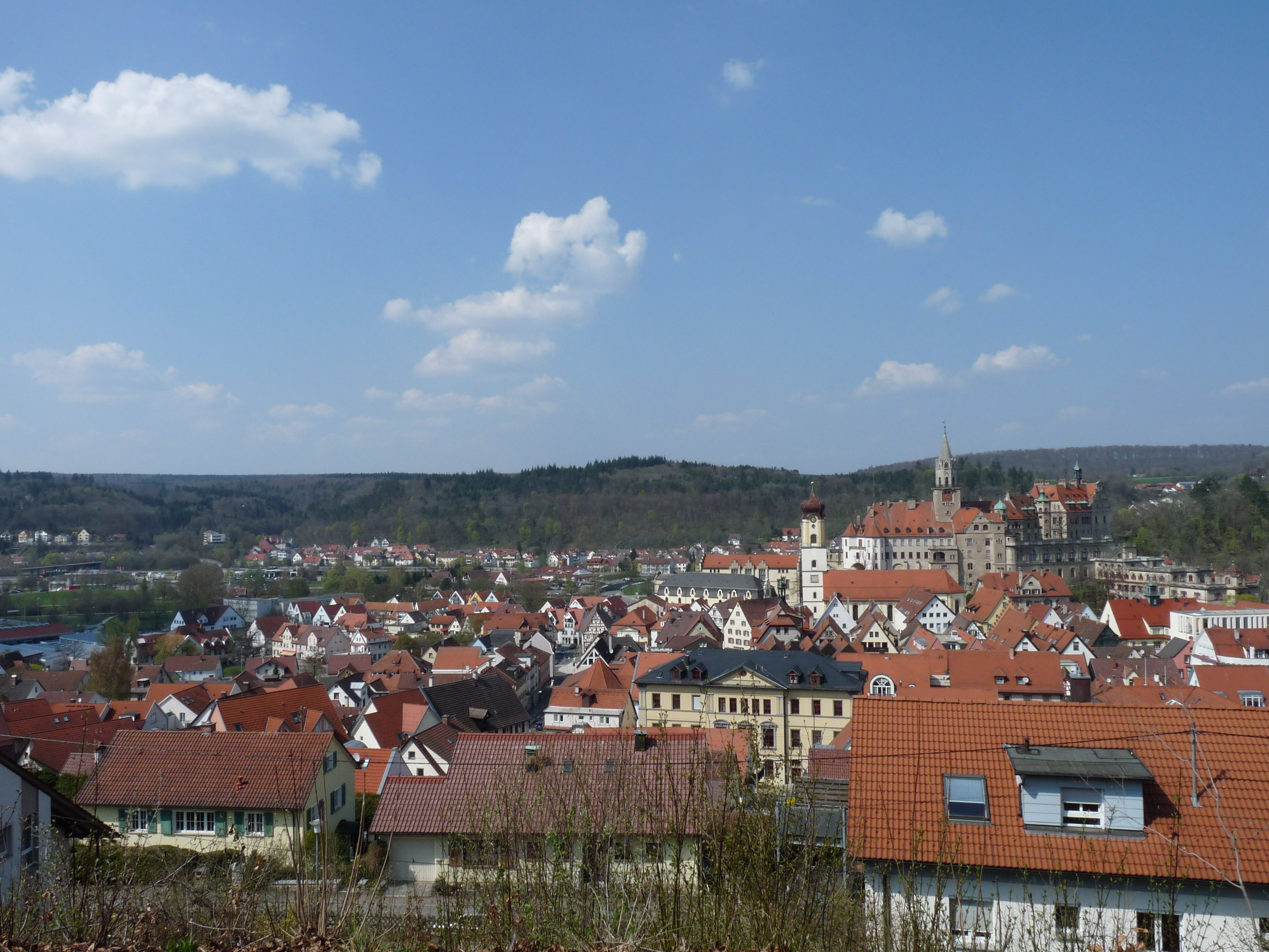 View over Sigmaringen, Germany